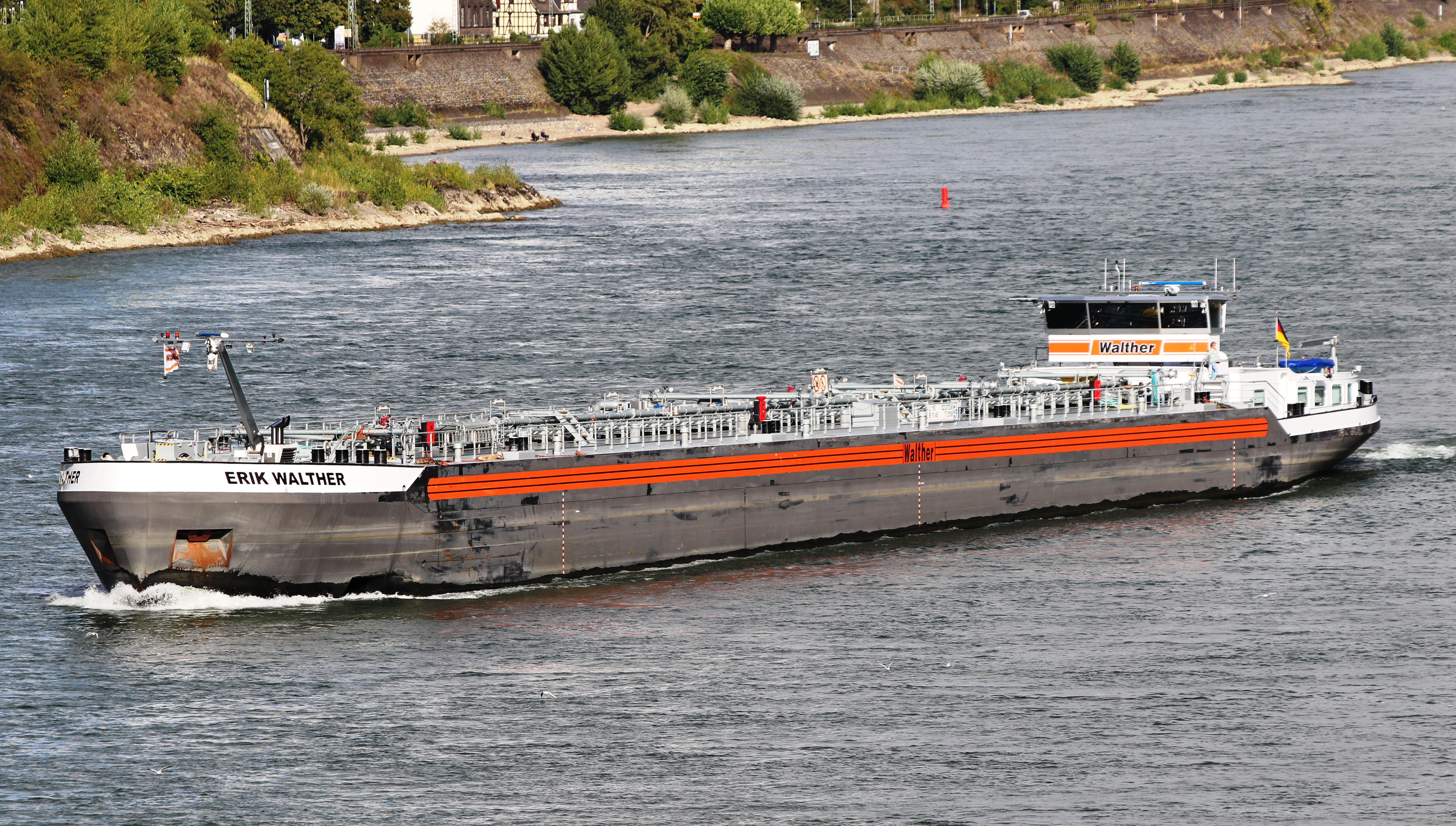 Tankmotorschiff Erik Walther bei Andernach